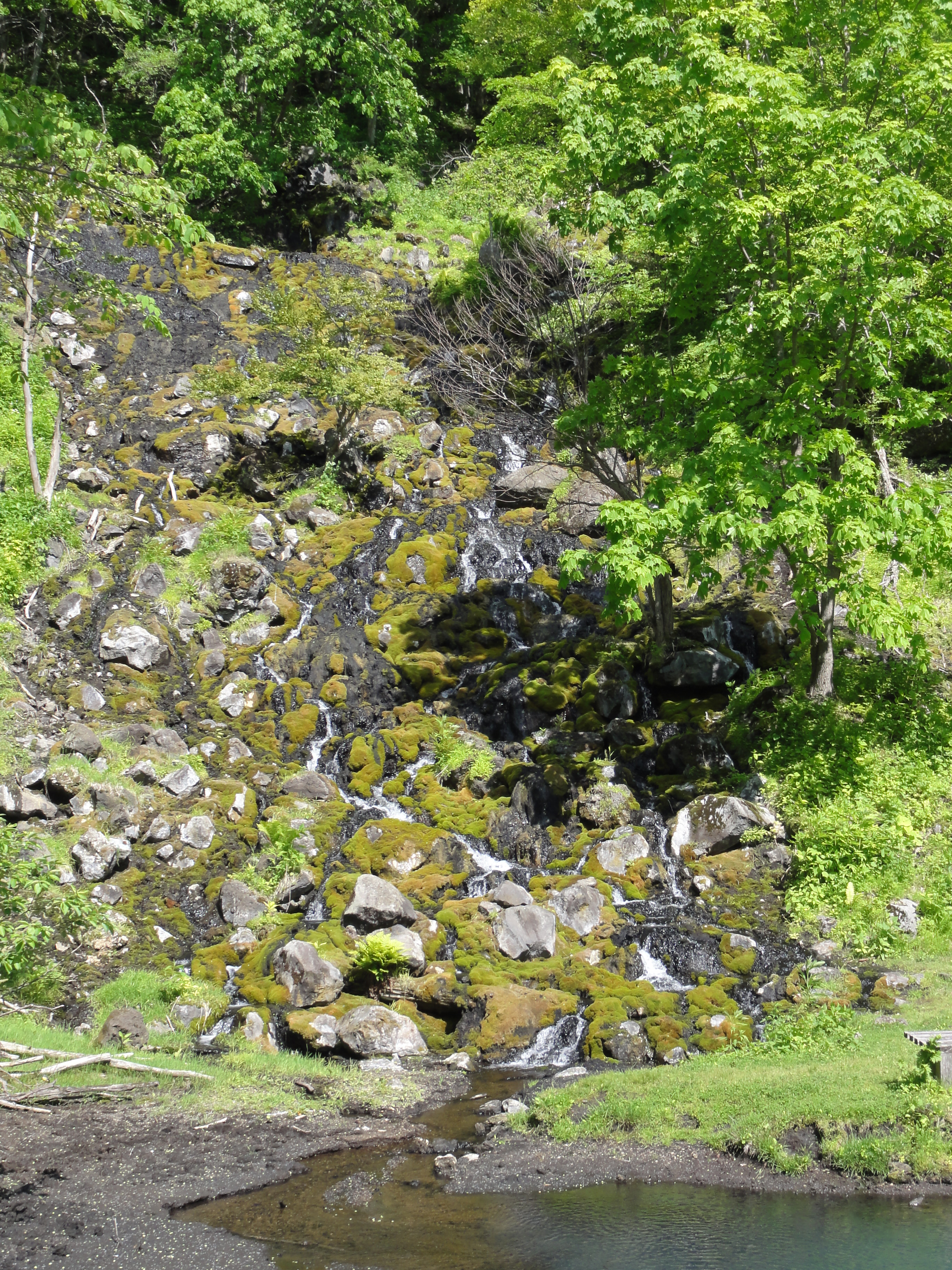 Onnetō Hot Falls,Hokkaido prefecture, Japan